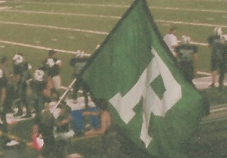 I took this picture myself at the 2004 Roswell-Milton Football Game held on Friday 9/19/2004.